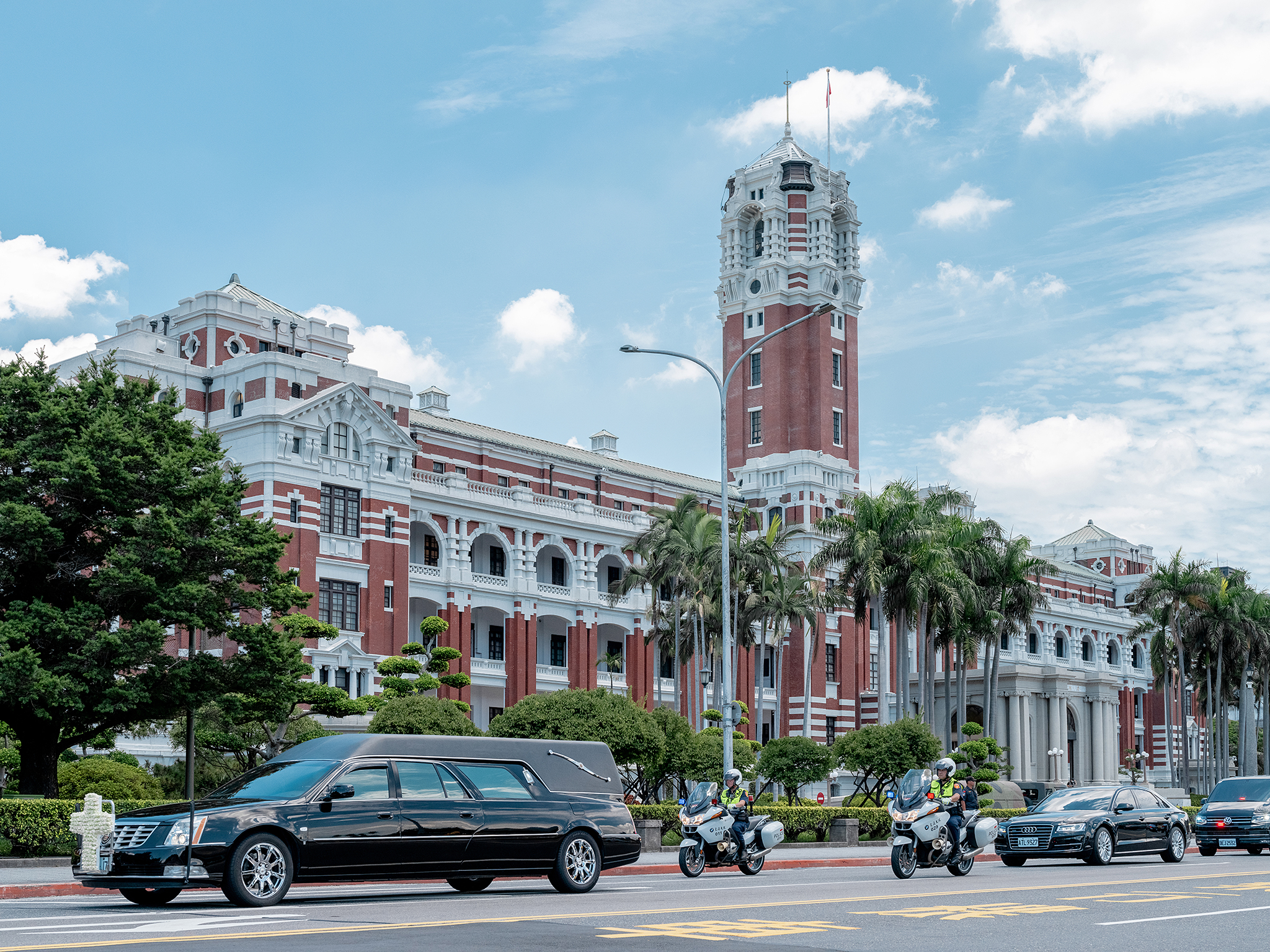 Official Photo by Makoto Lin / Office of the President